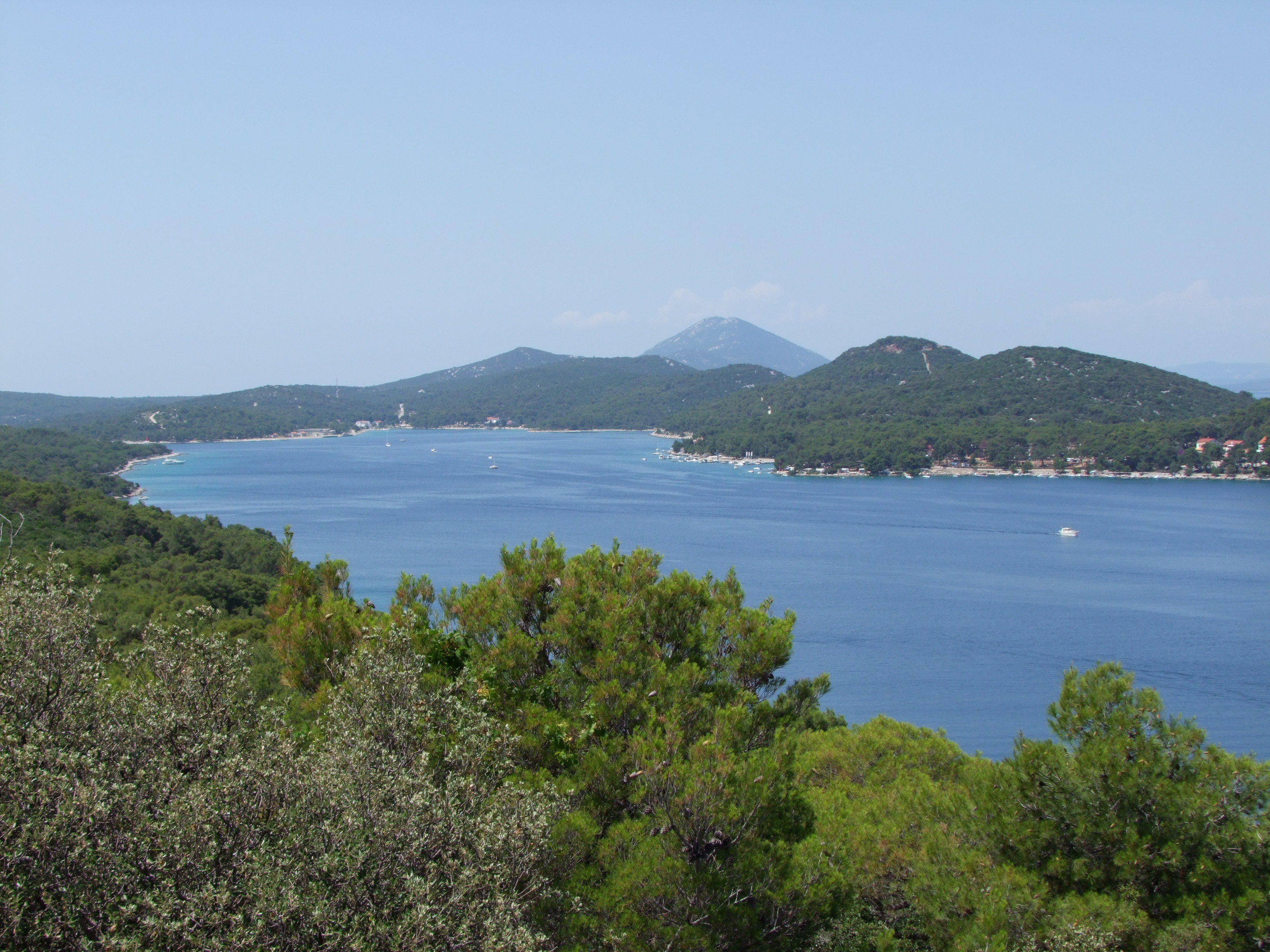 View from the Vela Straža over the bay in Mali Lošinj.